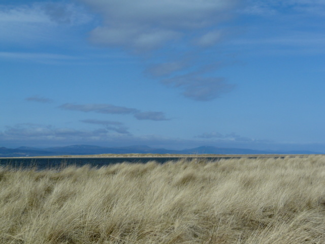 Rubh'na h-Innse Moire, near Tain, Scotland